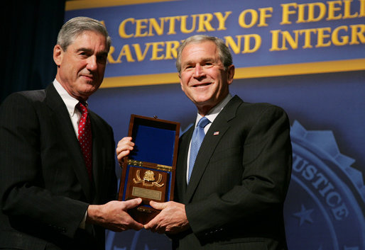 President George W. Bush is presented with an honorary FBI Special Agent credential by FBI Director Robert Mueller Thursday, Oct. 30, 2008, at the graduation ceremony for FBI special agents in Quantico, Va. White House photo by Joyce N. Boghosian